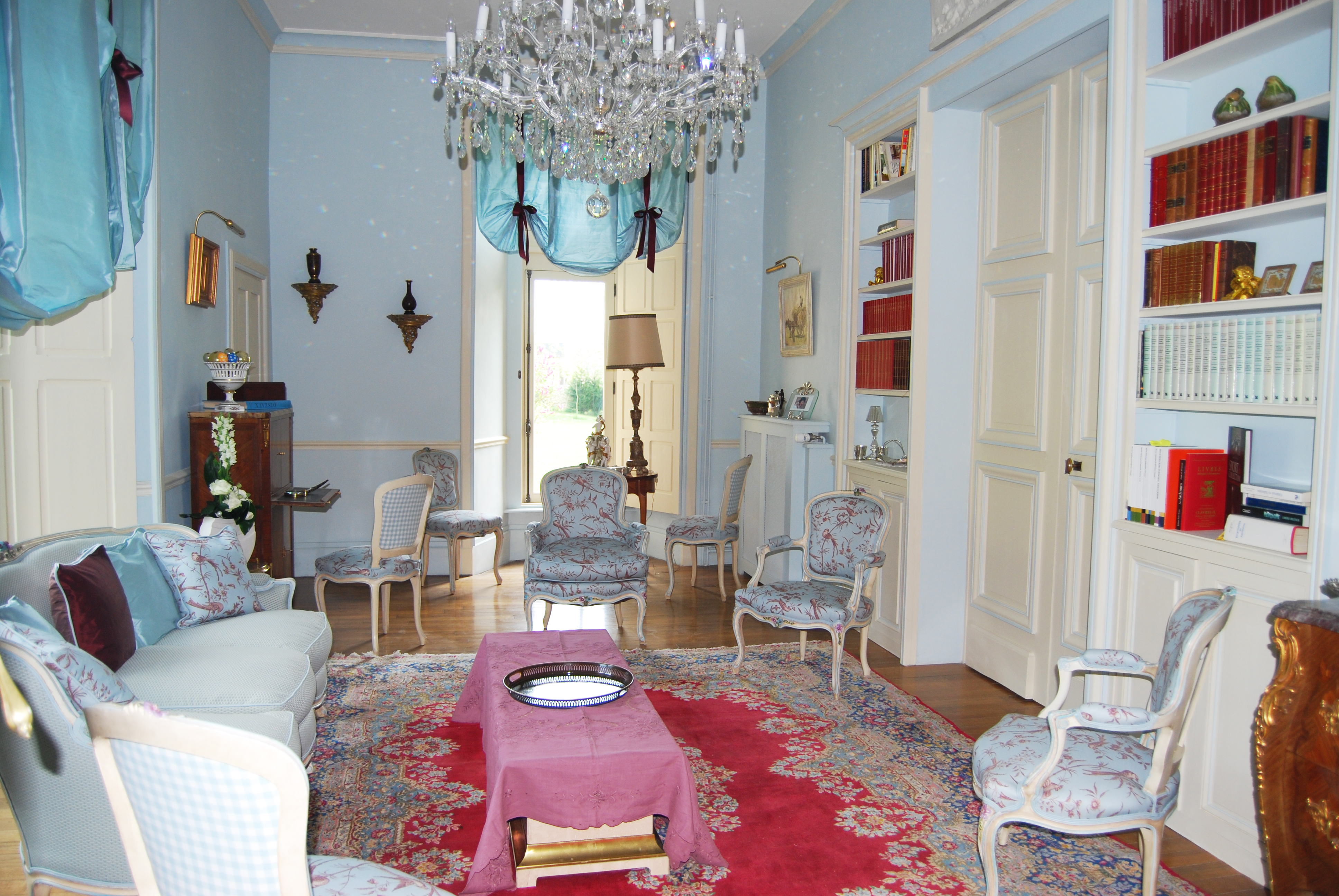 Boudoir from ground floor of Landreville Castle, renovated in 2011.